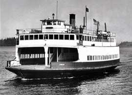 The Crosline, a vessel launched in Seattle June 22, 1925 for the Crosby Direct Line Ferries Company.